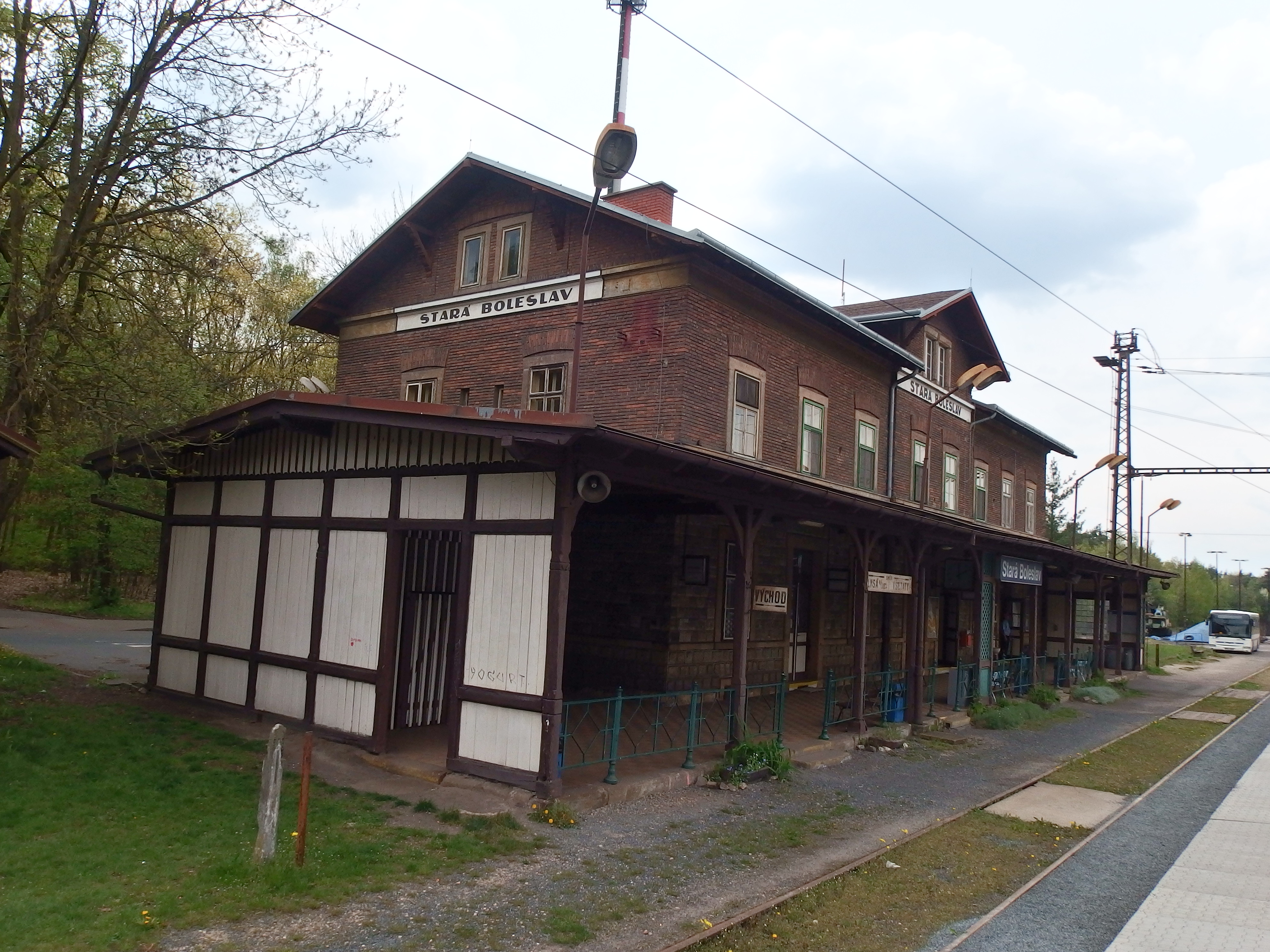 Brandýs nad Labem-Stará Boleslav, Prague-East District, part Stará Boleslav.